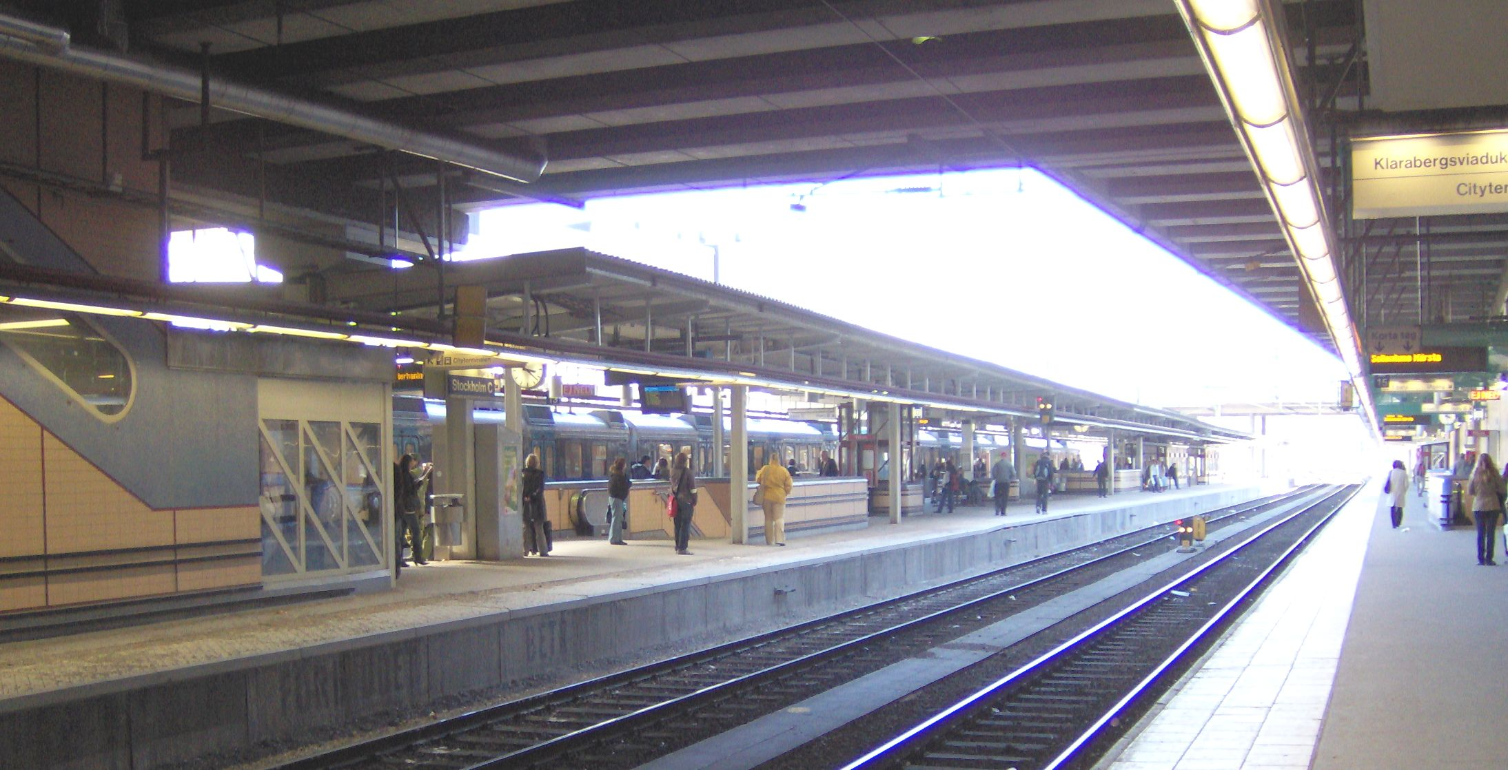 Stockholm Central Station with its open plattforms.